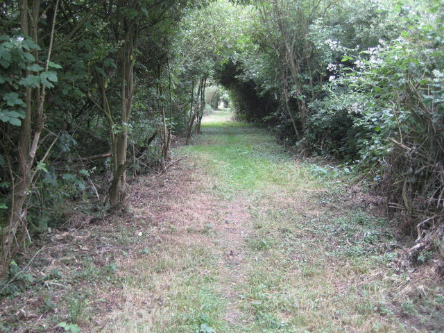 The Staines and West Drayton Railway was completed in 1885 and a halt was opened here in 1887 as Runnymede Range station to serve the nearby extensive rifle range to the west. It was renamed Yeoveney Halt railway station in 1935, but passenger traffic must have been sparse at best and the halt closed in 1962, three years before the line itself. Contrary to popular belief the site of the station was not lost under the M25 Motorway and its site is confirmed by the existence of many of the platform supporting concrete pillars scattered in the scrub to the west of the line, to the right in the photo here. The site of the Runnymede rifle range and Yeoveney Farm have been lost under the Wraysbury Reservoir. Also contrary to popular belief the currently planned route of the proposed new AirTrack railway link from London Heathrow to Staines would not use the wooded green corridor trackbed of the old railway.